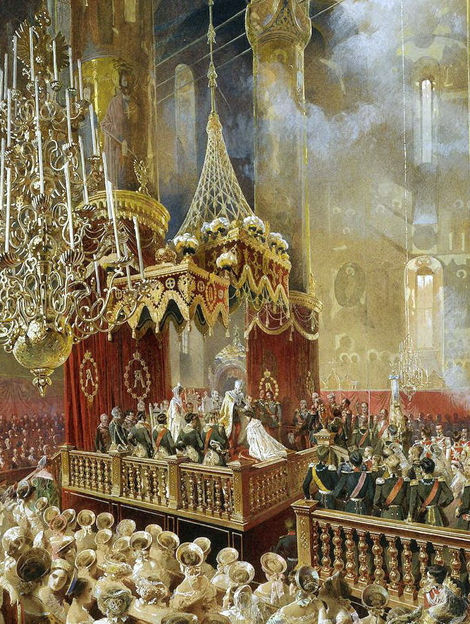 Coronation of Tsar Alexander II in 1856 at the Dormition Cathedral of the Moscow Kremlin. The painting depicts the moment of the coronation in which the Tsar crowns his Empress